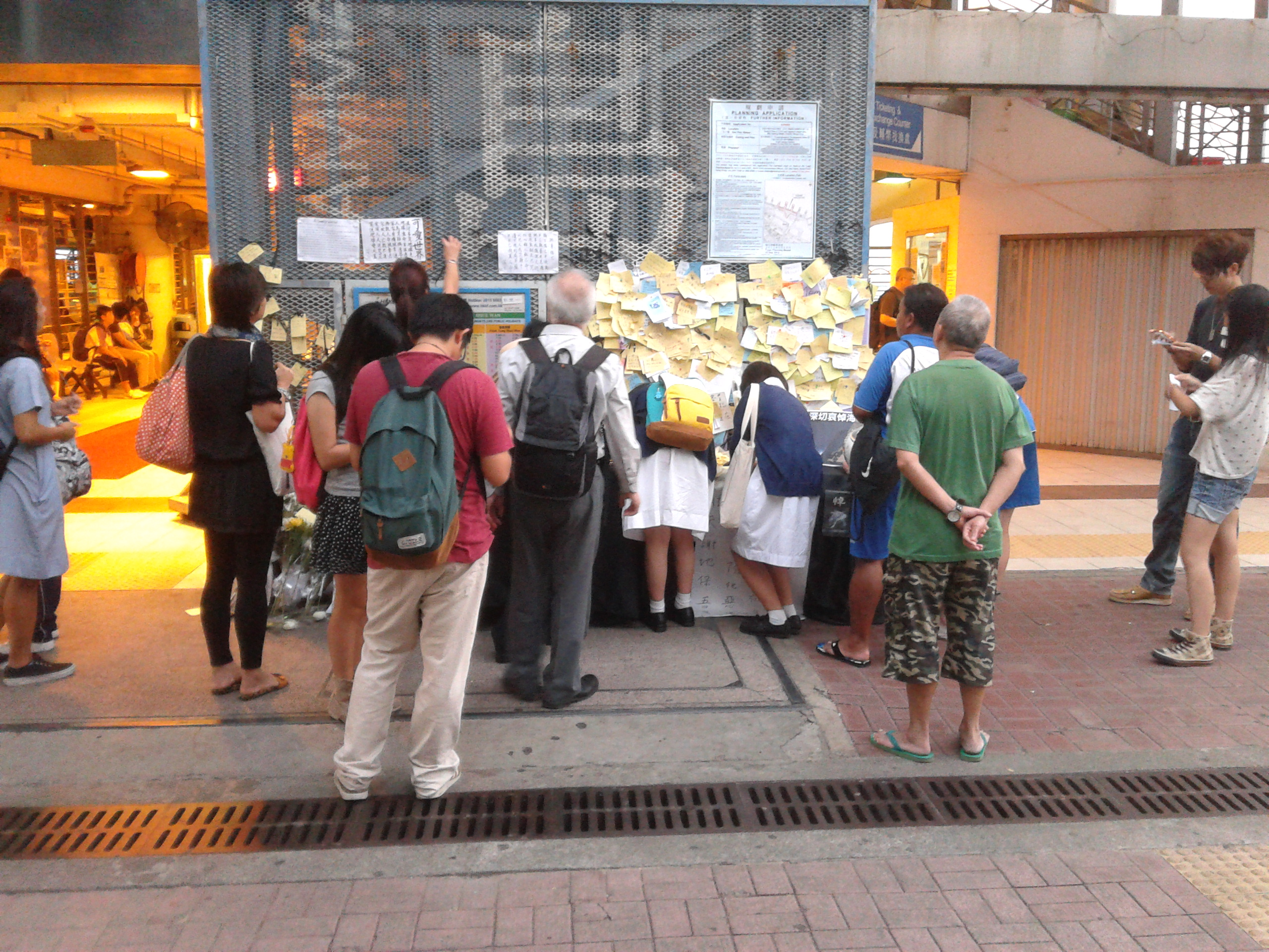 People signed the condolence book at Lamma Island pier in Central中文（香港）: 人們在中環往南丫島碼頭簽吊唁冊。